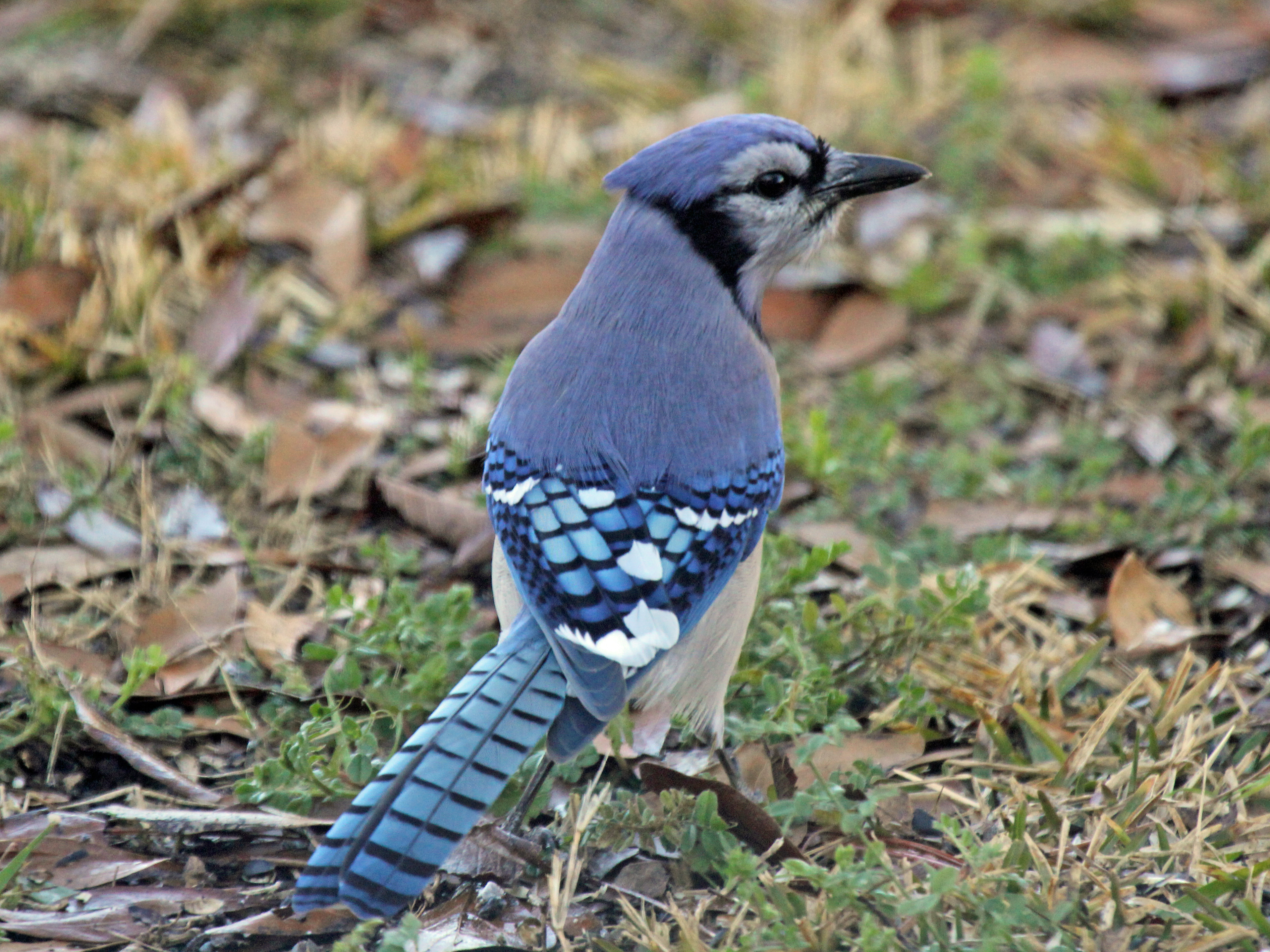 Blue Jay (Cyanocitta cristata) - Ash, North Carolina. This is subspecies Cyanocitta c. cristata.